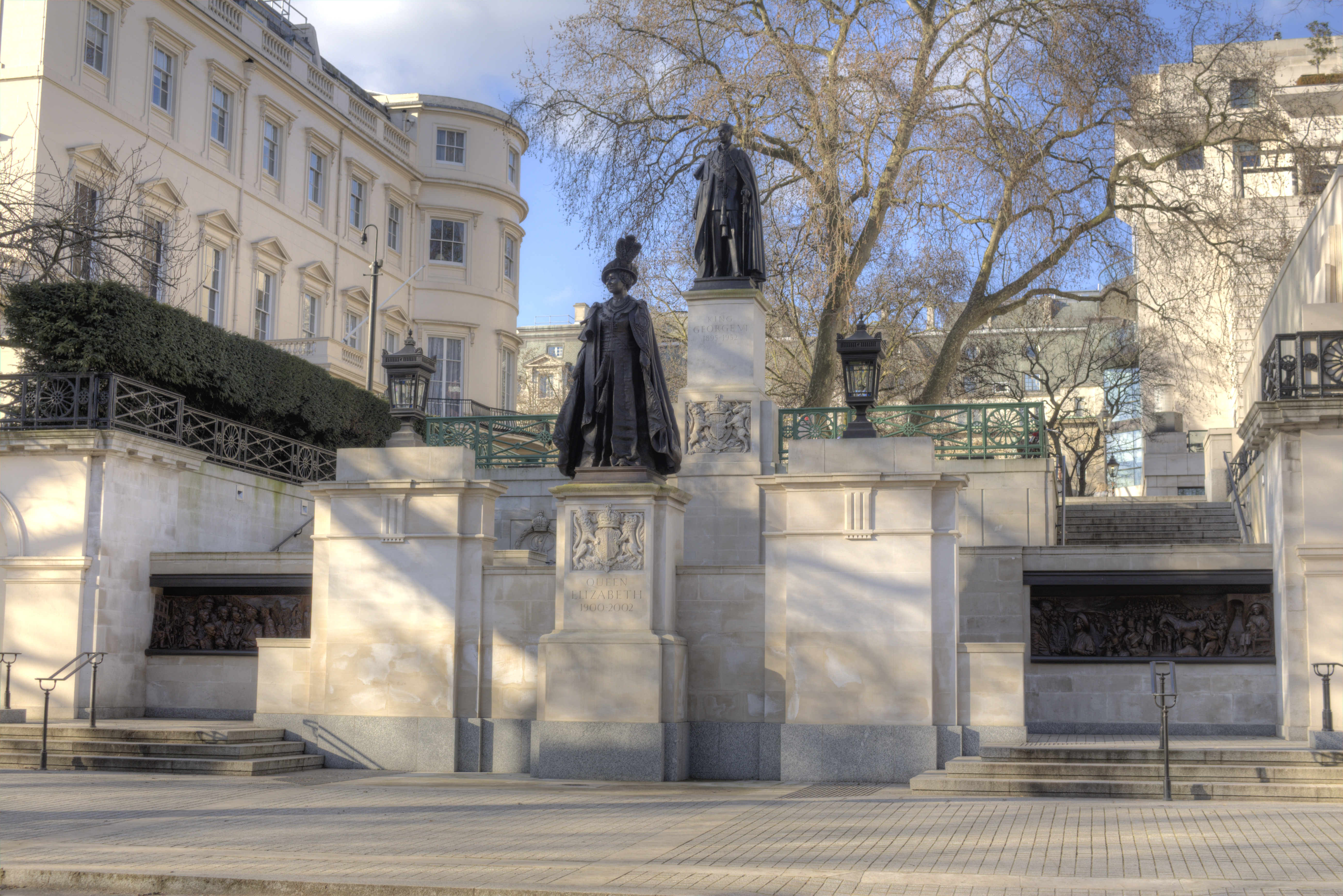 George VI and Queen Elizabeth Monument, Pall Mall, London